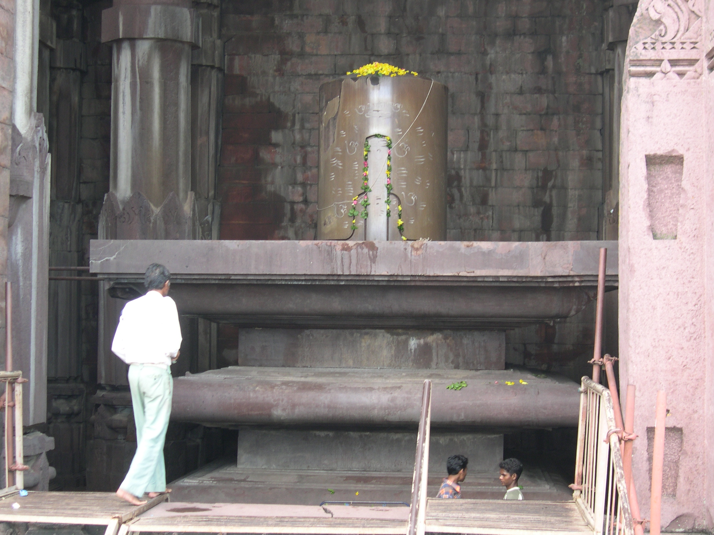 Bhojpur, Madhya Pradesh, India. Shiva temple showing the linga, 11th century